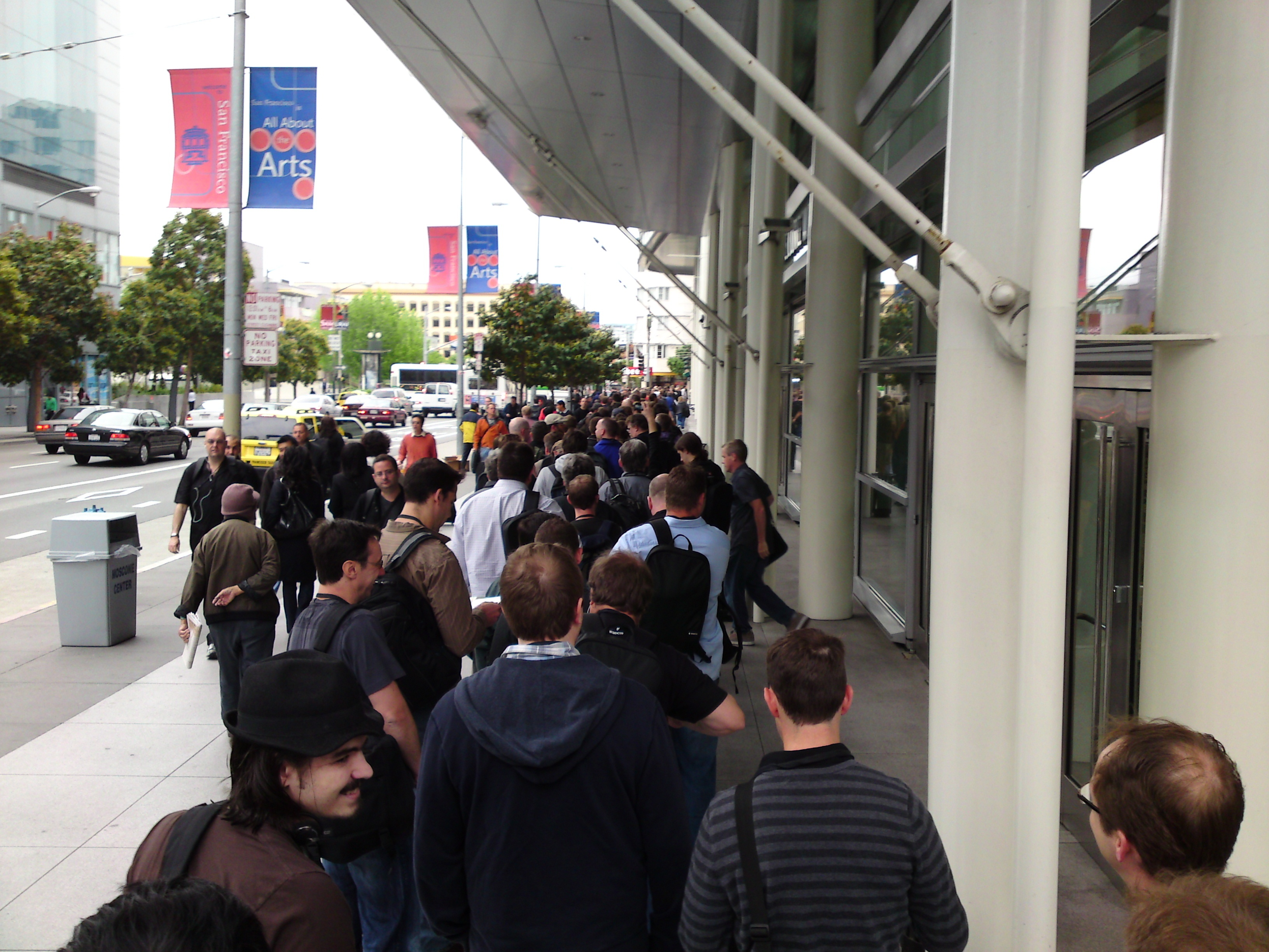 In line for the Keynote